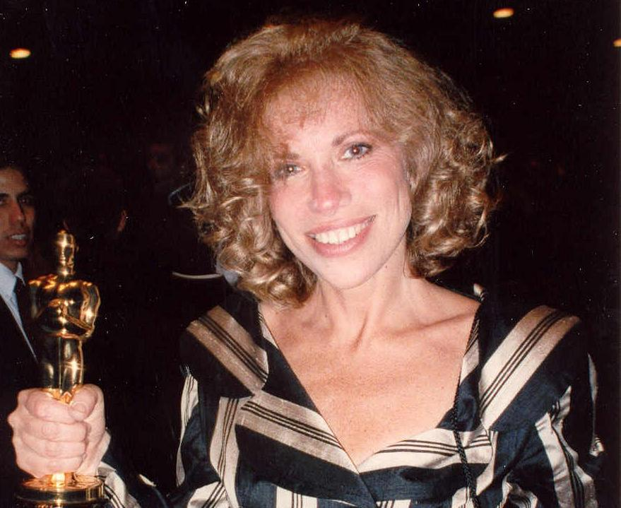 Photo of Carly Simon at the 1989 Academy Awards.